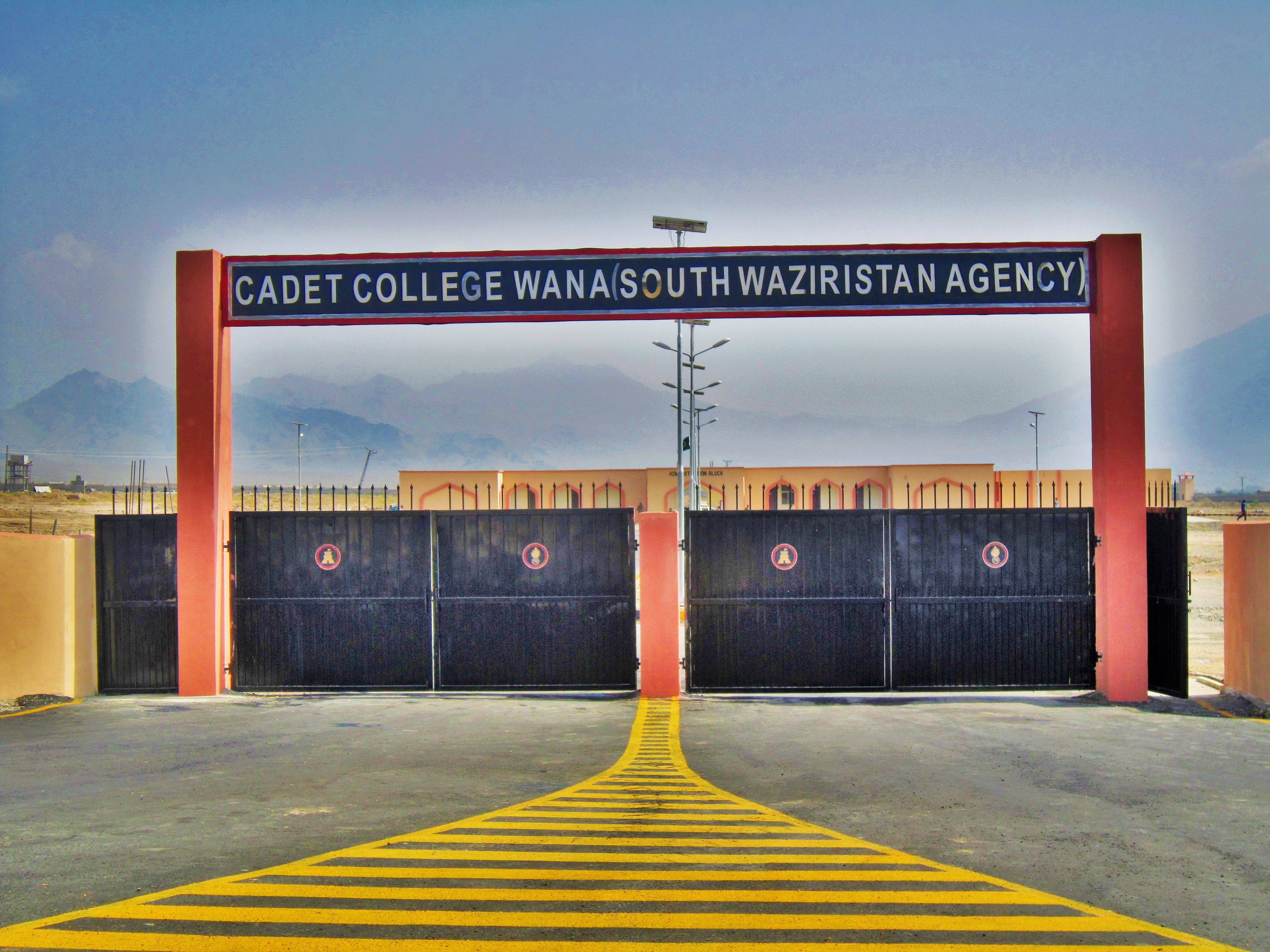 Main Gate - Cadet College Wana